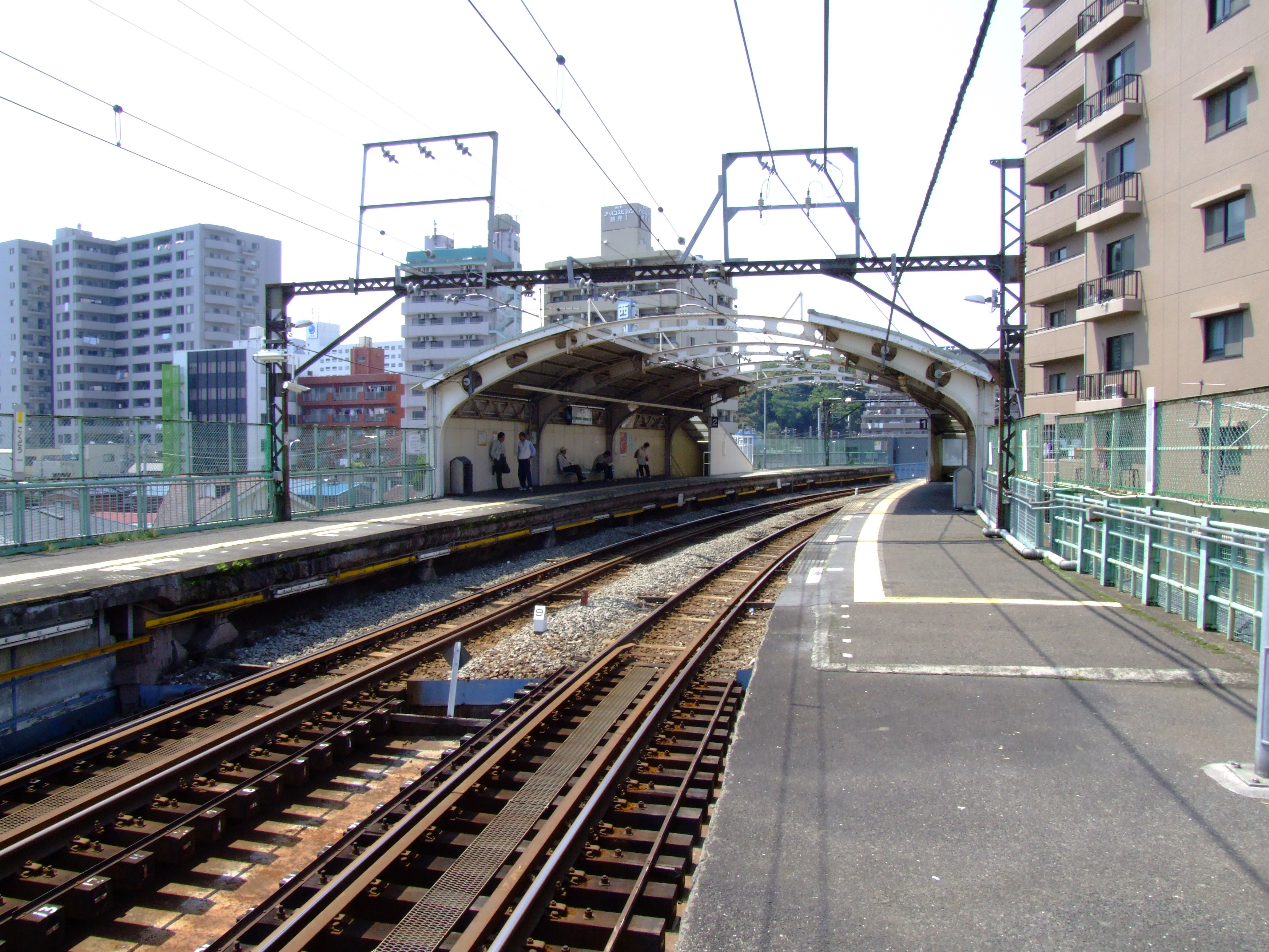 The platforms at Kokudō Station on the Tsurumi line, JR East